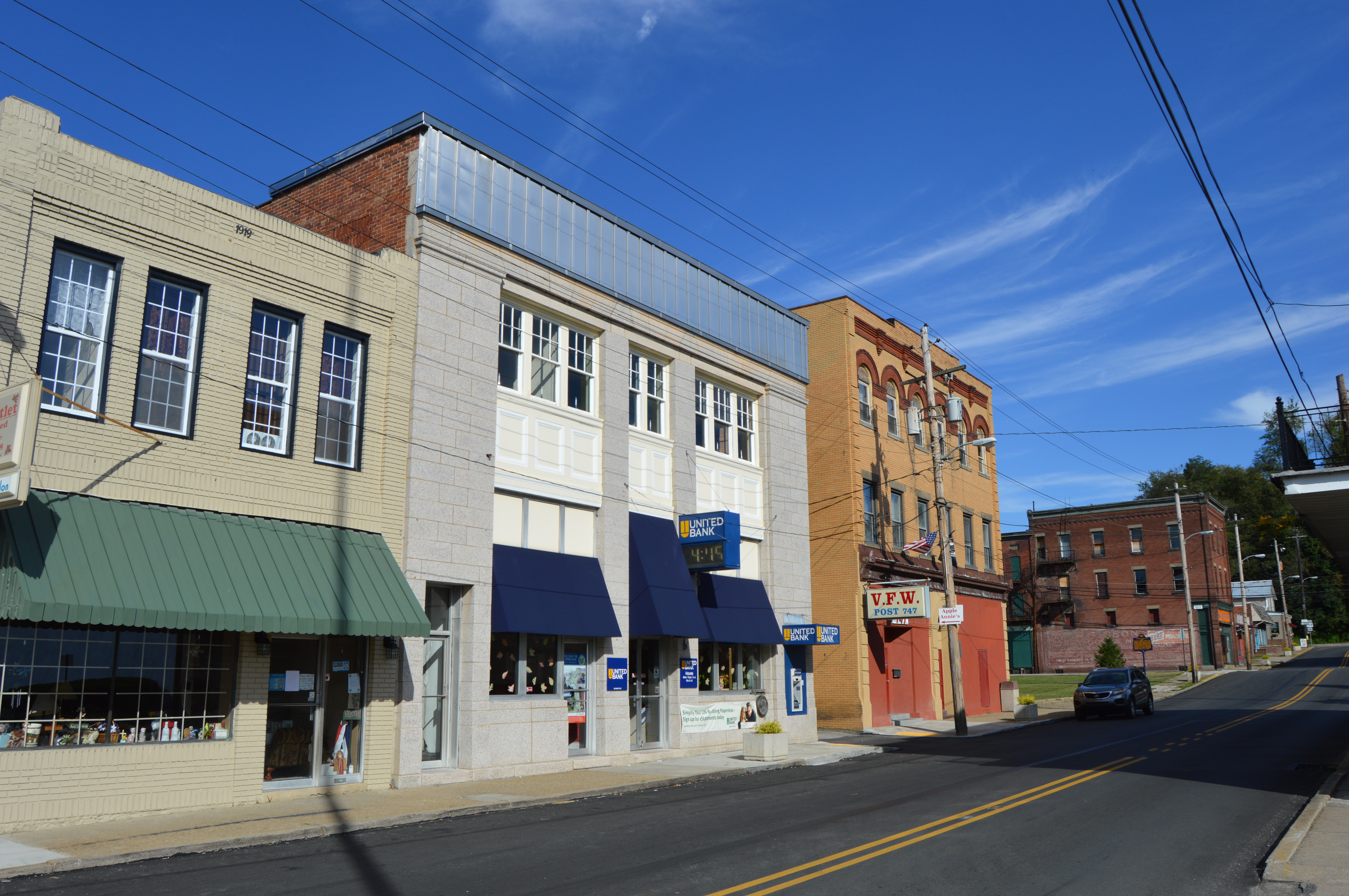 Looking eastward on Penn Street (U.S. Route 119) from the Main Street intersection in Point Marion, Pennsylvania, United States.